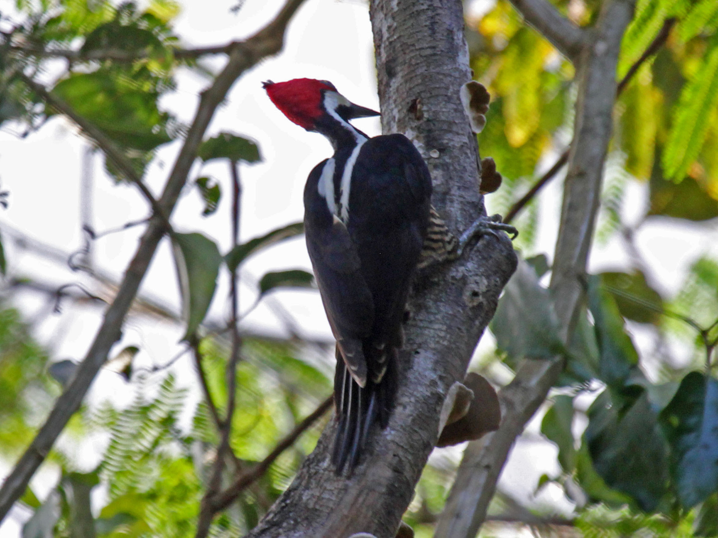 Female Crimson-crested Woodpecker (Campephilus melanoleucos) - Soberania National Park, Panama